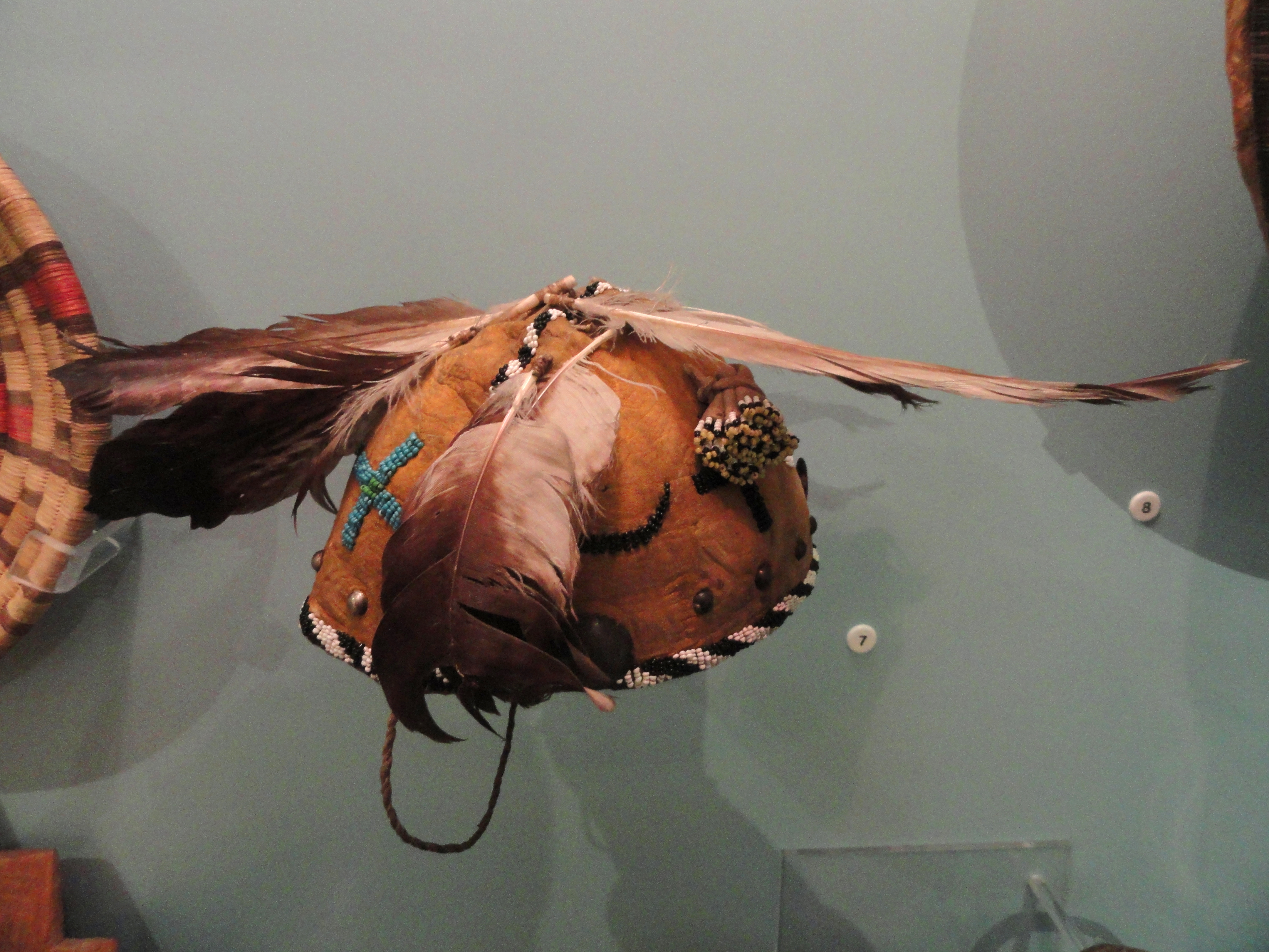 War cap, Chiricahua Apache, 1880s. Exhibit from the Native American Collection, Peabody Museum, Harvard University, Cambridge, Massachusetts, USA. Photography was permitted without restriction; exhibit is old enough so that it is in the public domain.